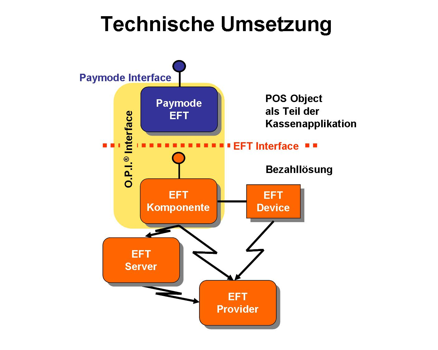 Scheme of the technical realisation of the OPI online payment system.